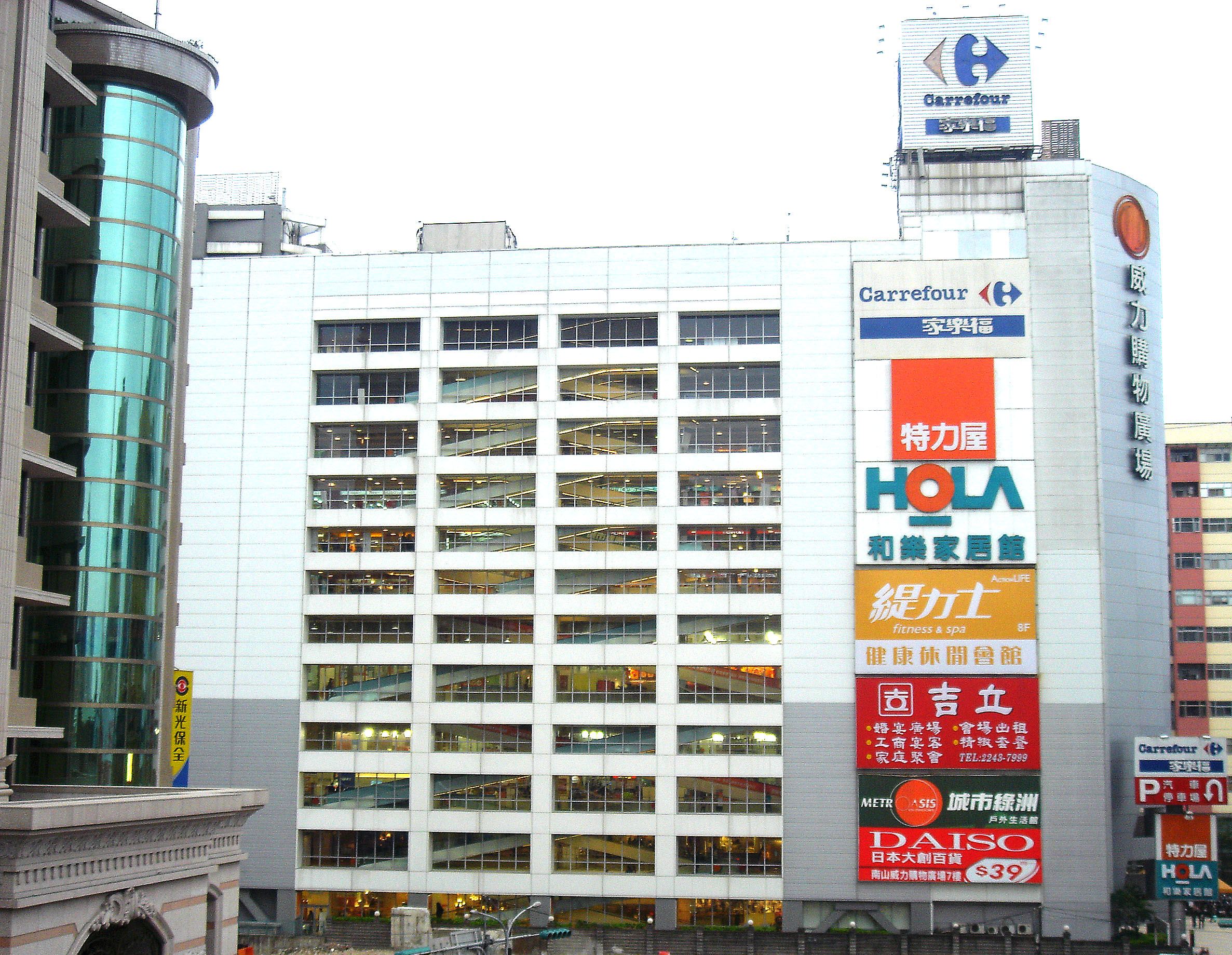 NAN SHAN POWER CENTER, located near MRT Huazhong Bridge station.